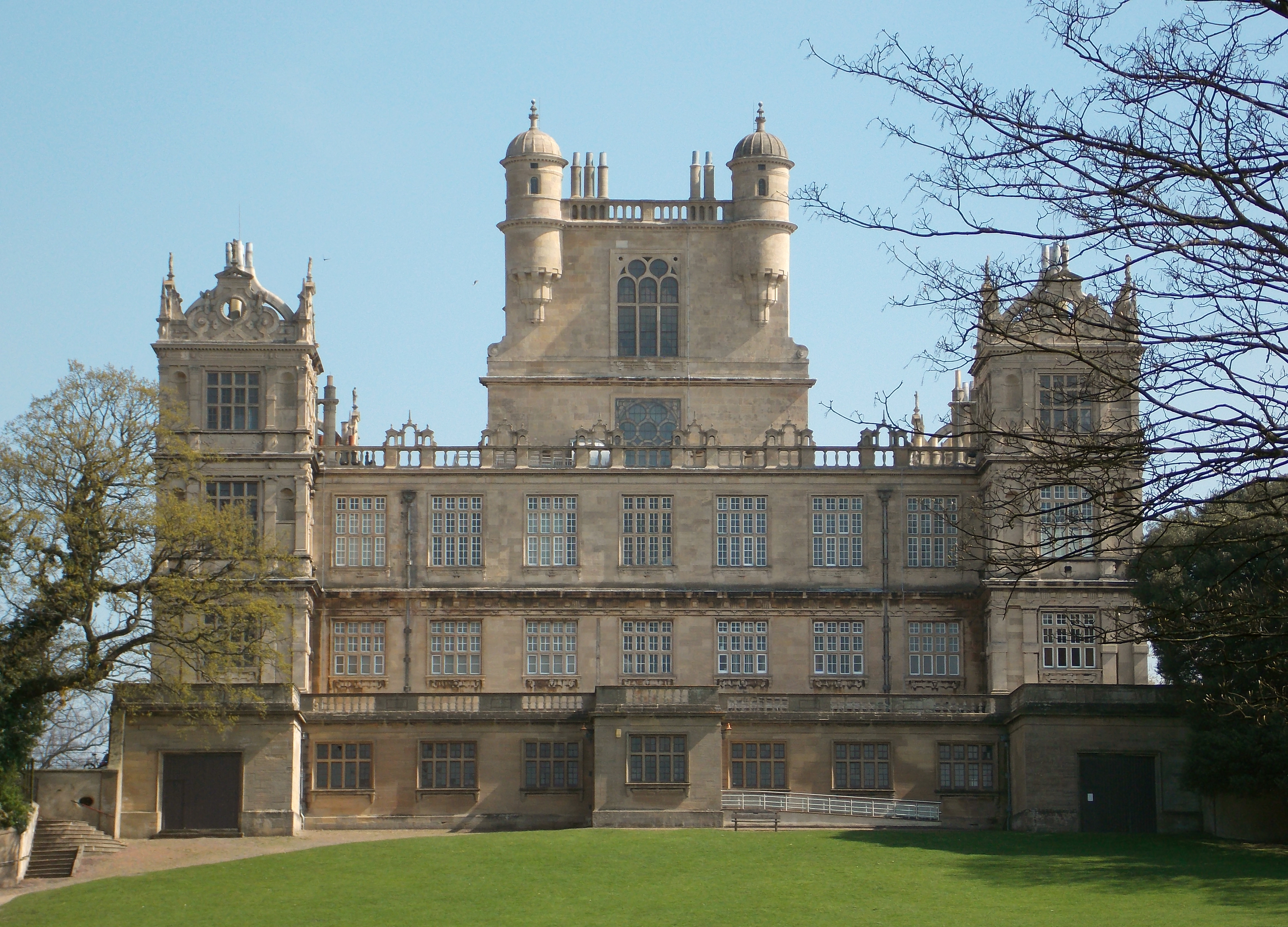 Wollaton Hall from the west, Nottingham, England